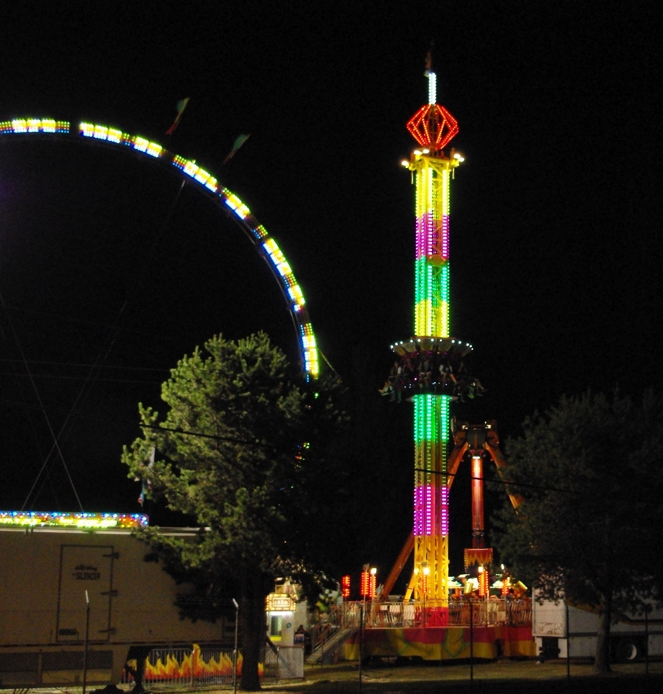 Carinval rides at night during the 2011 Washington County Fair in Hillsboro, Oregon.